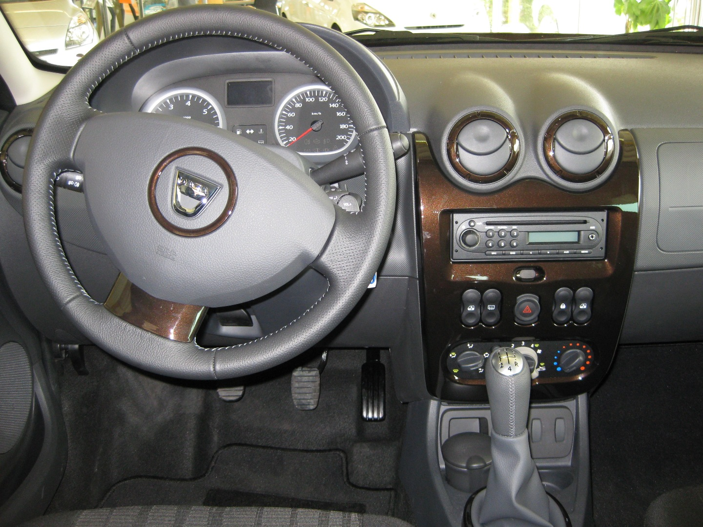 Dashboard of Dacia Duster